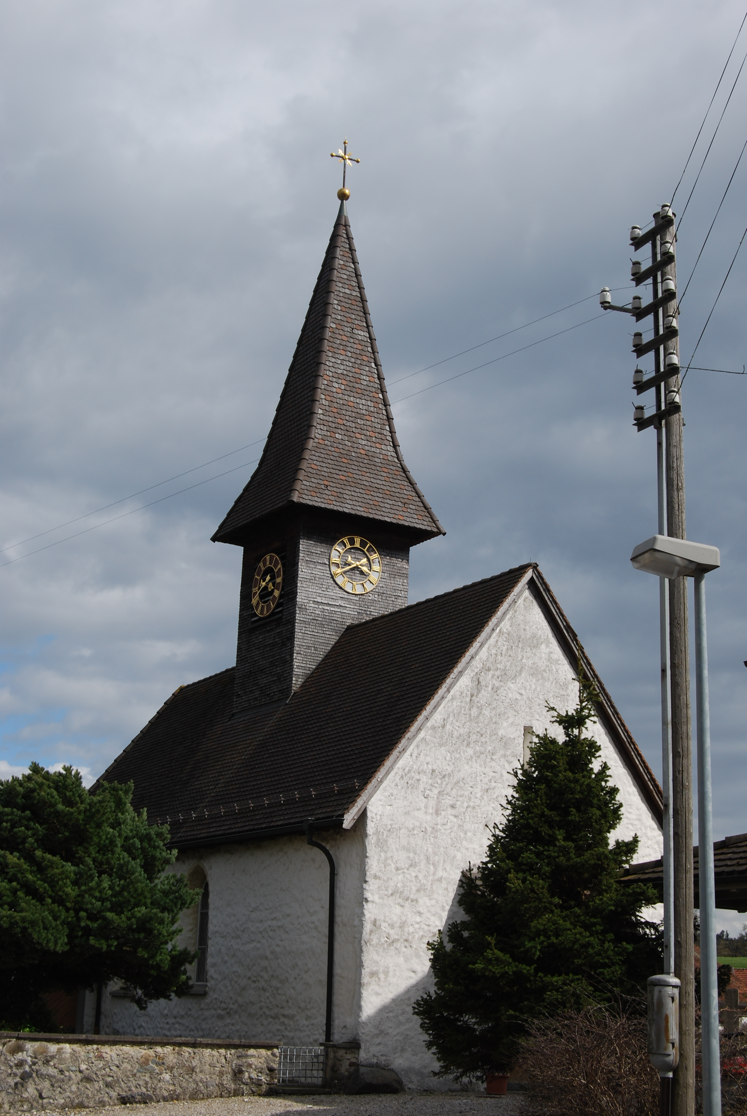 Catholic church of Schönholzerswilen, canton of Thurgovia, SwitzerlandEsperanto: Katolika preĝejo de Schönholzerswilen, Kantono Turgovio, Svislando